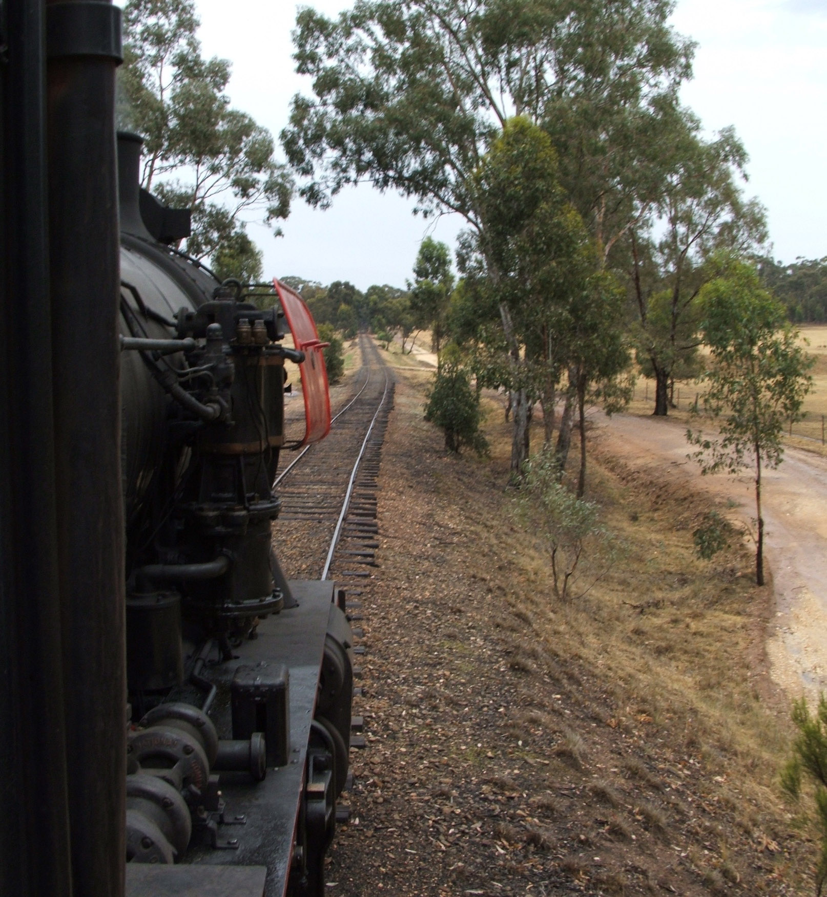 Victorian Railways J class steam locomotive J 515 heading for Maldon railway station on the Victorian Goldfields Railway, Australia, as seen from the fireman's side window of the cab.